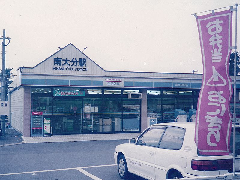 Minami-Oita Station, Kyudai Line, JR Kyushu, Oita City, Oita, Japan(in 1996).